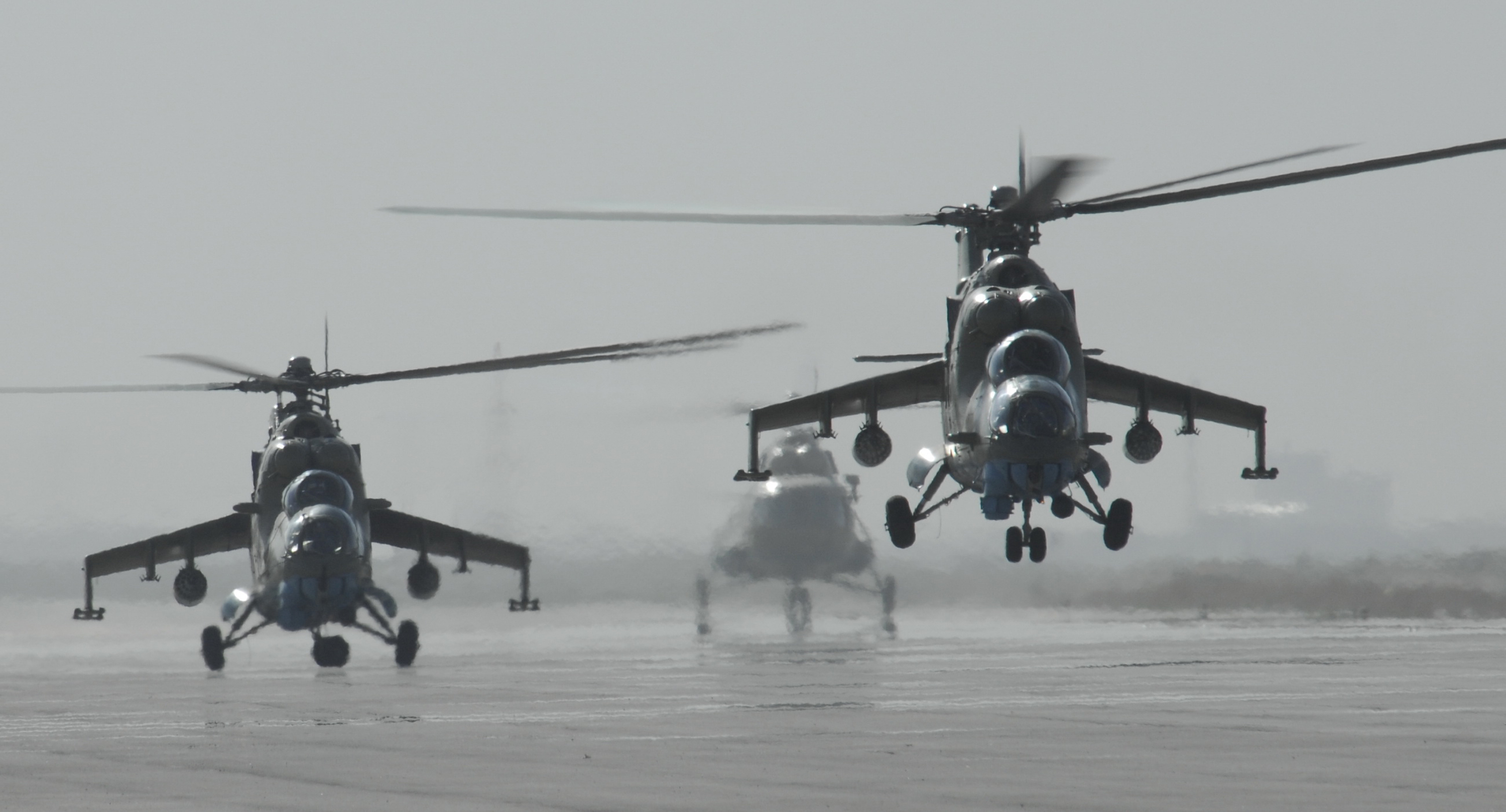 Two MI-35 attack helicopters from the Afghan National Army Air Corps launch from the airport in Kabul, Afghanistan, on a gunnery training mission May 27 as another ANAAC MI-17 transport lands in the background. This mission was the first time rockets have been flown by the Afghan air corps in more than eight years and will eventually allow the Afghans to provide their own close-air support.